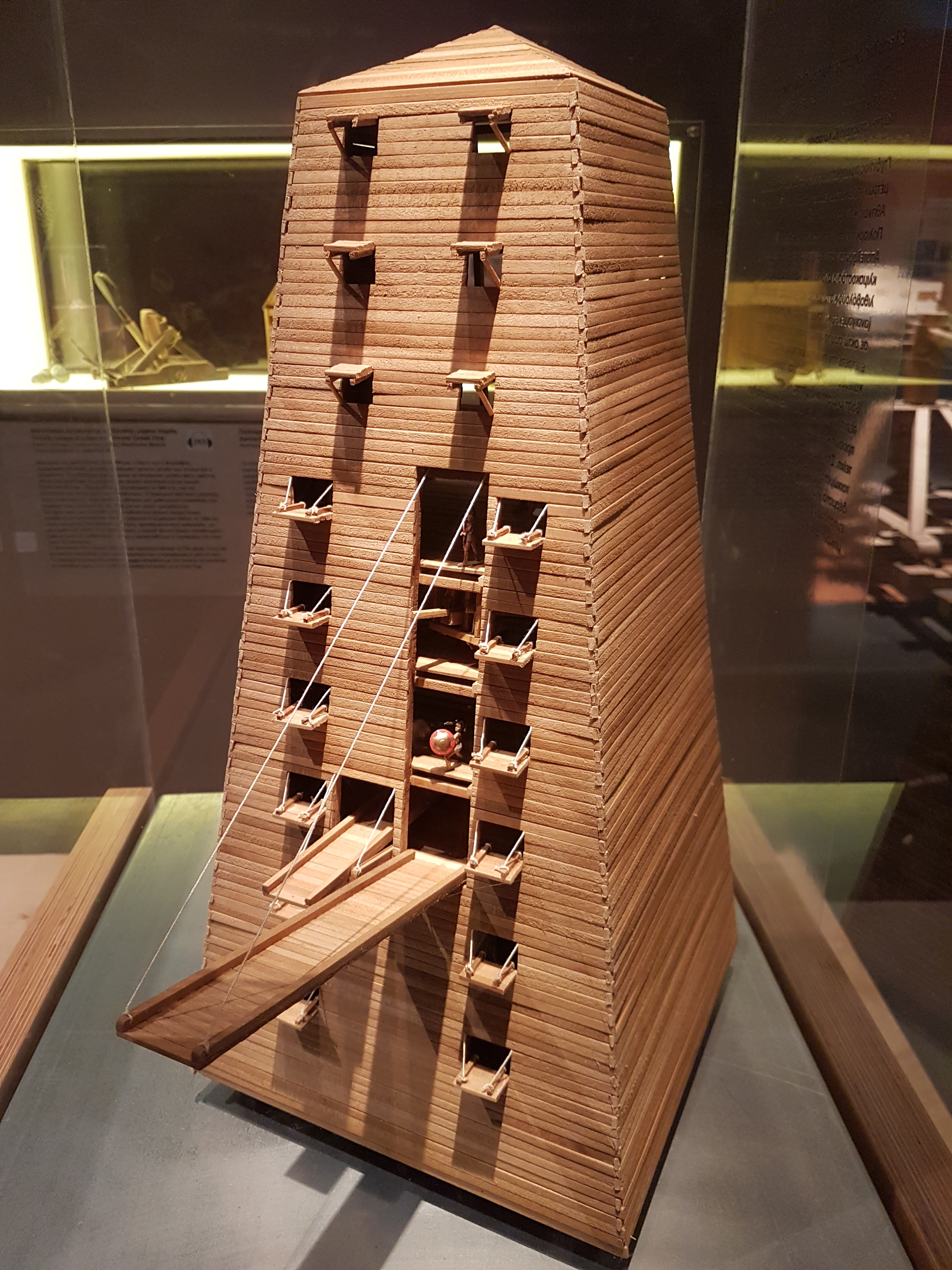 Helepolis siege engine, 4th century BC, Greece (modelled after Demetrius Poliorcetes helepolis siege tower). Thessaloniki Technology Museum. Design and construction by K.Kotsanas.